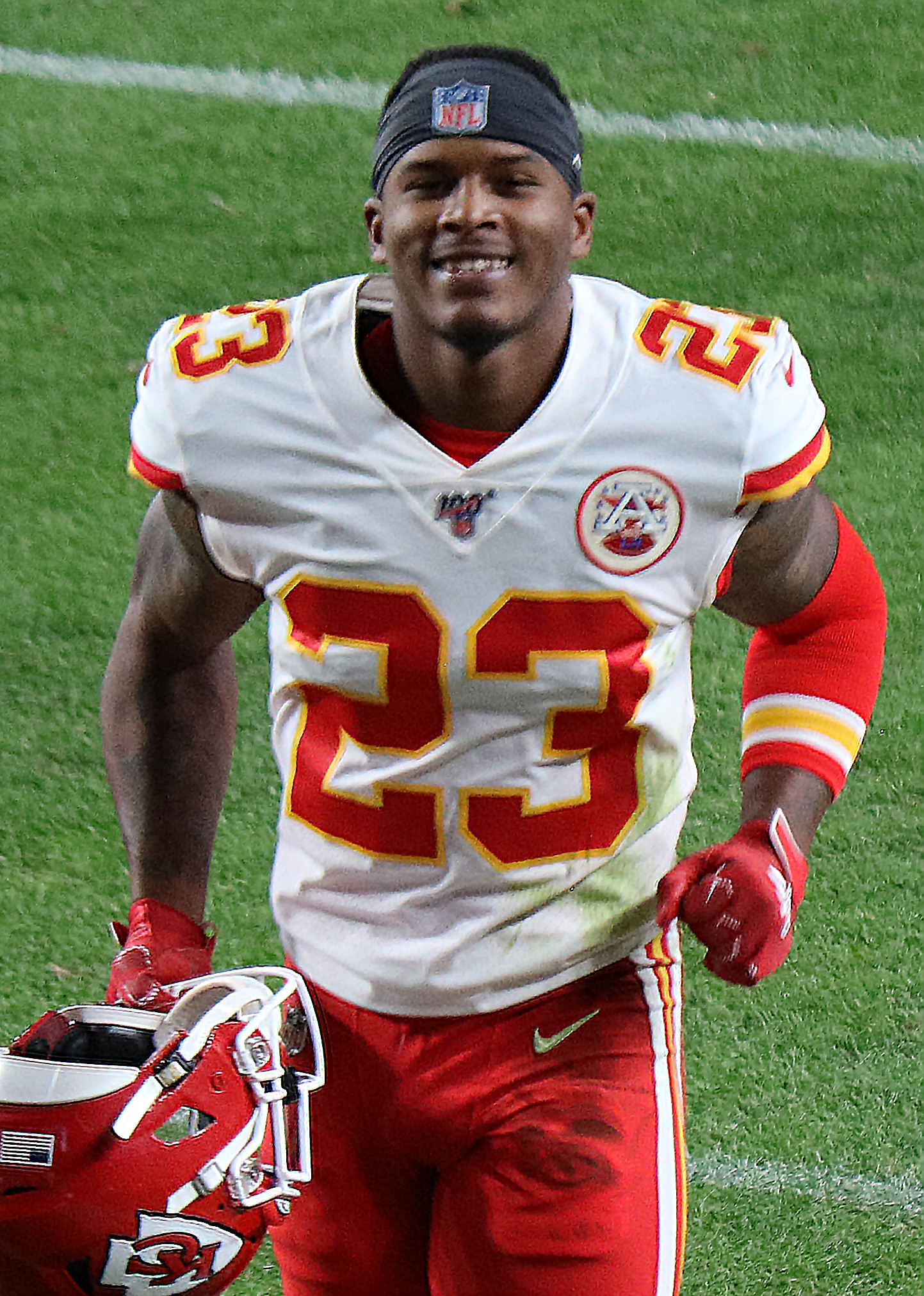 Armani Watts, a National Football League player.